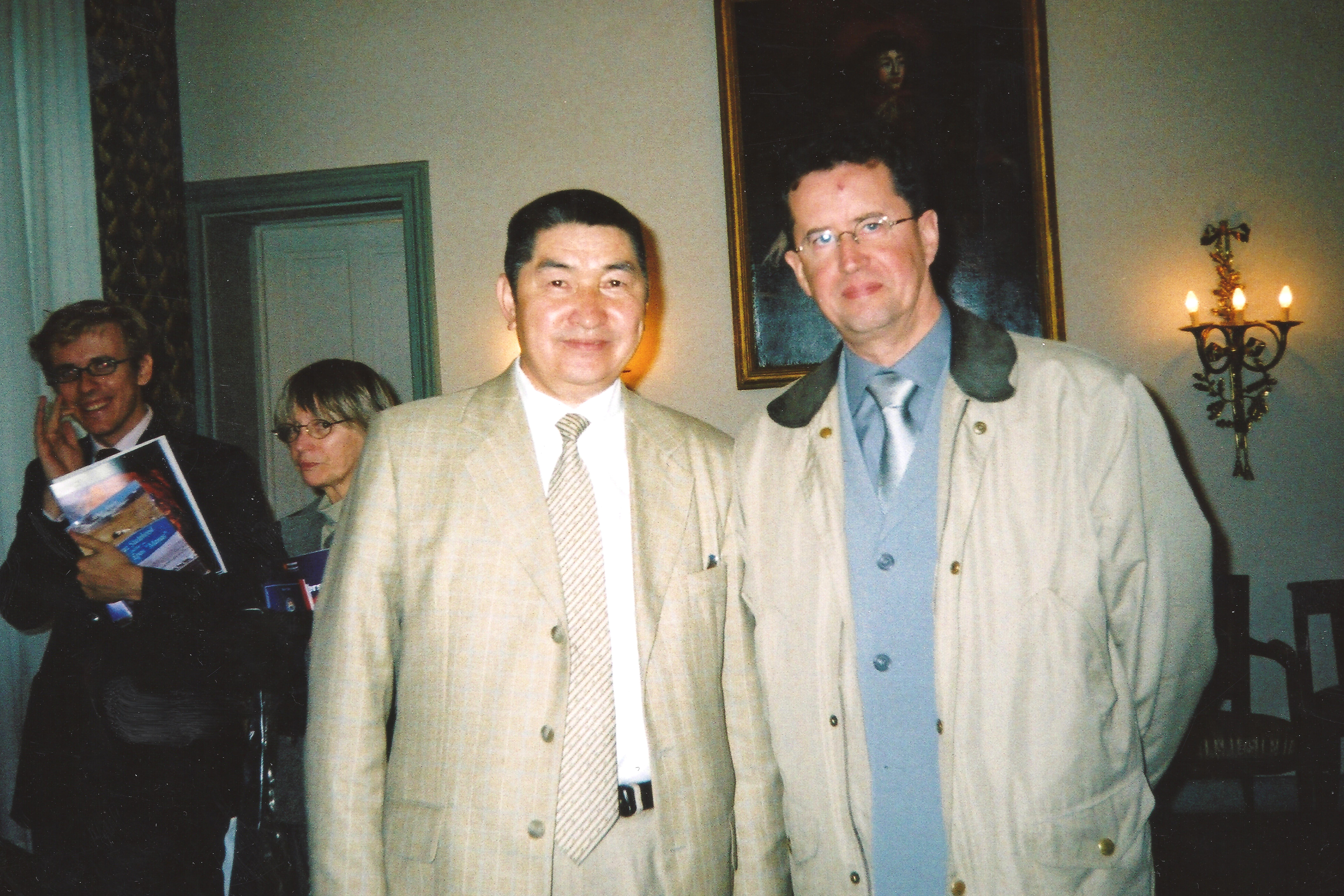 A French Professor Rémy Dor and a Kyrgyz Professor Tyntchtykbek Tchoroev, in the Sorbonne, Paris, France. 07.10.2003.